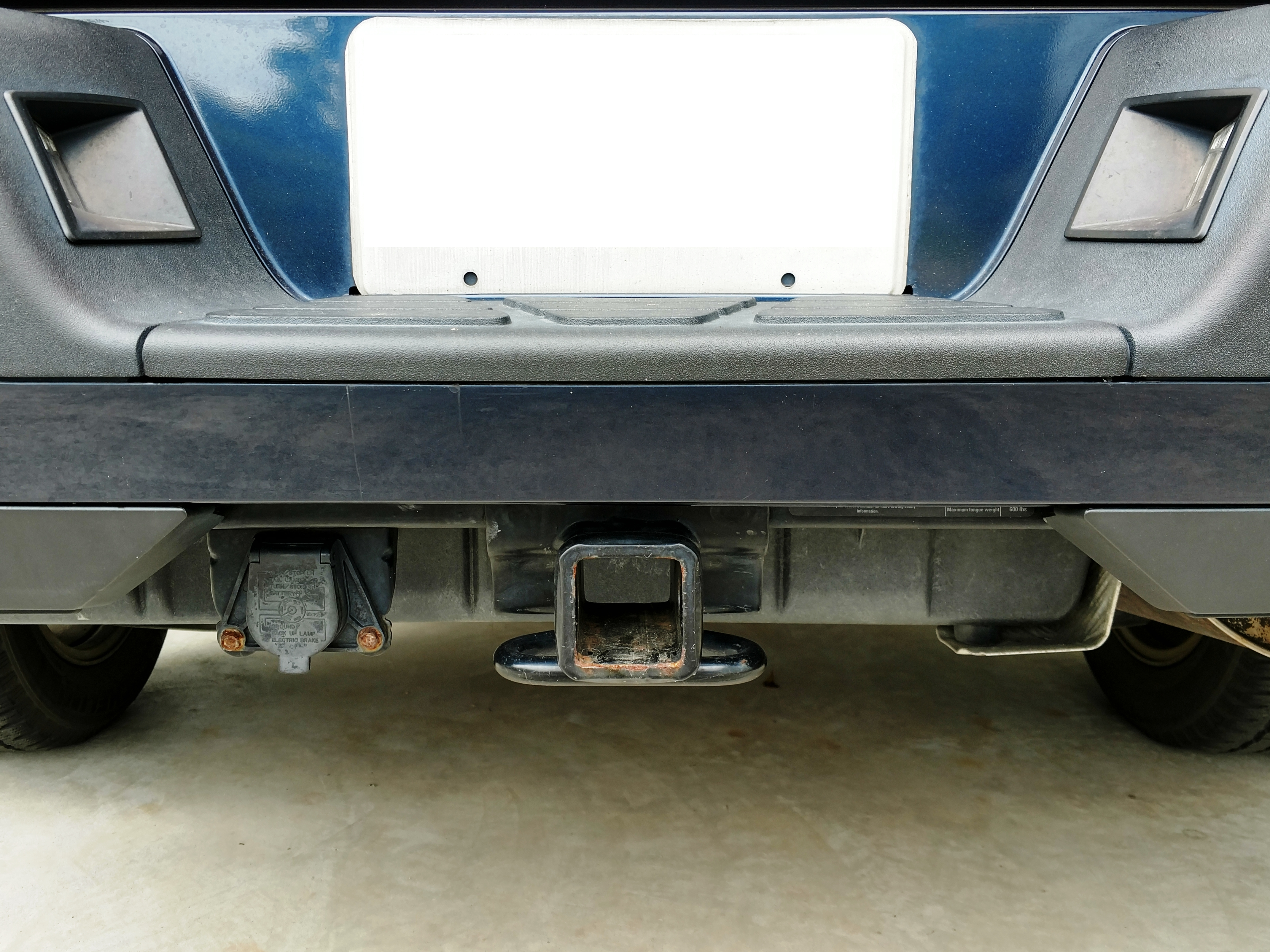 Standard class III tow hitch with 7-pin blade trailer connector from a 2009 Honda Ridgeline RTL